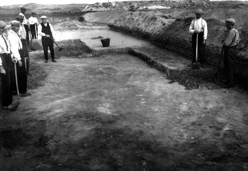 Archaeological excavations at Ockenburgh (near The Hague, Netherlands) under the leadership of Dr. Holwerda, Director of the National Museum of Antiquities in Leiden, 1930-1936. His discovery of an indigenous, Batavian settlement later proved to be incorrect and was based on rather sloppy work.